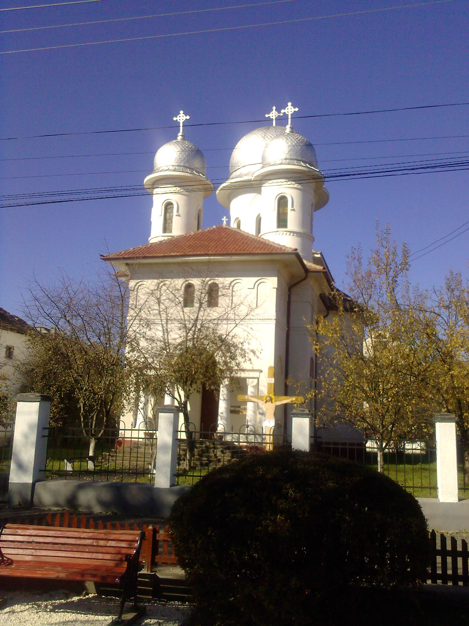 Harghita County, Cristuru Secuiesc, Orthodox Church